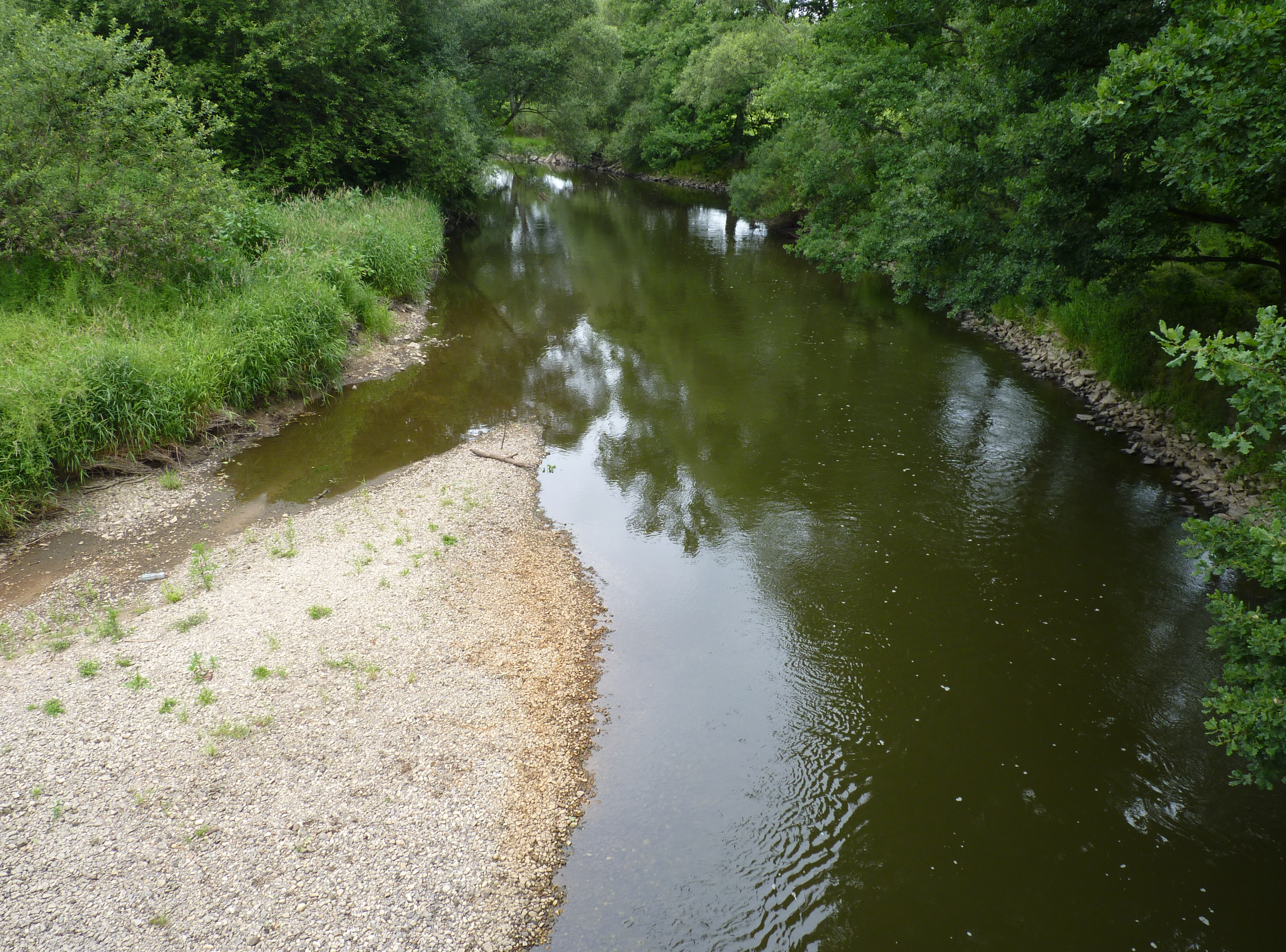 Nežárka River in Jemčina. Jindřichův Hradec District, South Bohemian Region, Czech Republic